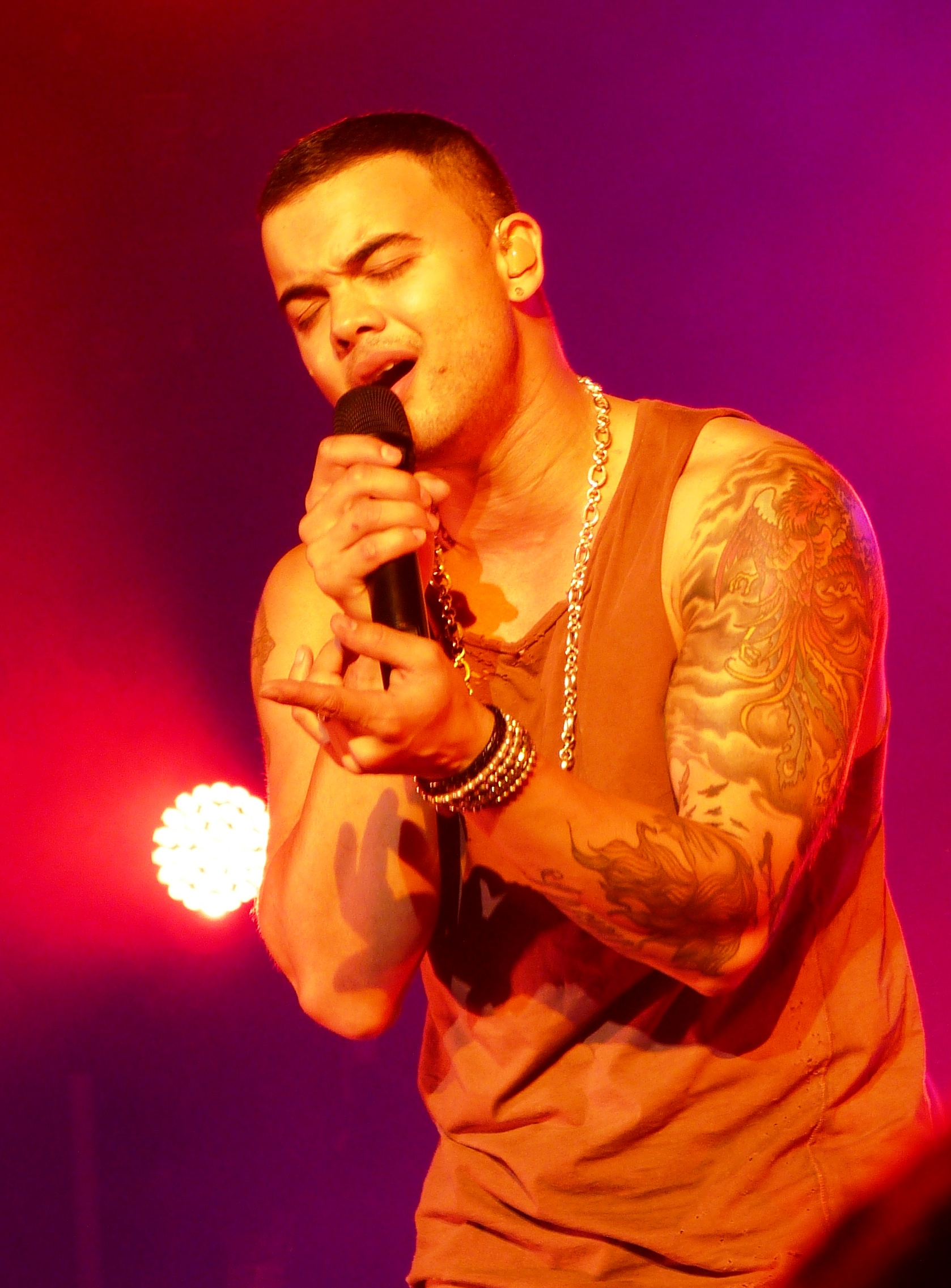 Guy Sebastian singing Battle Scars at Get Along Tour 2013 at Jupiters Casino on the Gold Coast.